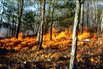 Prescribed fire during a burn to promote turkey brood habitat on the George Washington and Jefferson National Forests, Va. Many eastern ridgetops were burned by American Indians to clear trails for travel and improve browse for game. Photo: Steven Q. Croy, USDA Forest Service, George Washington and Jefferson National Forests, Roanoke, VA, 1995.